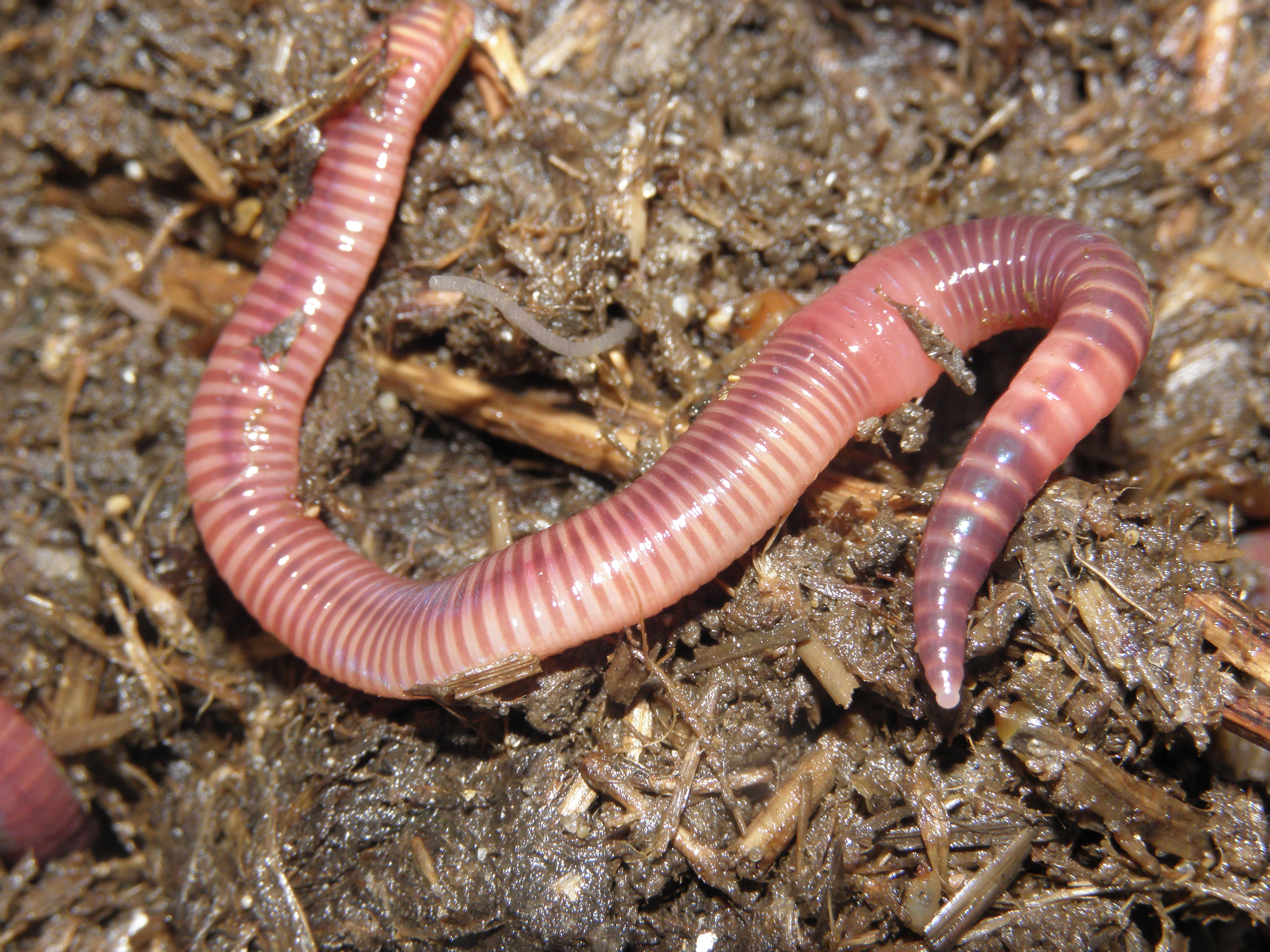 redworm